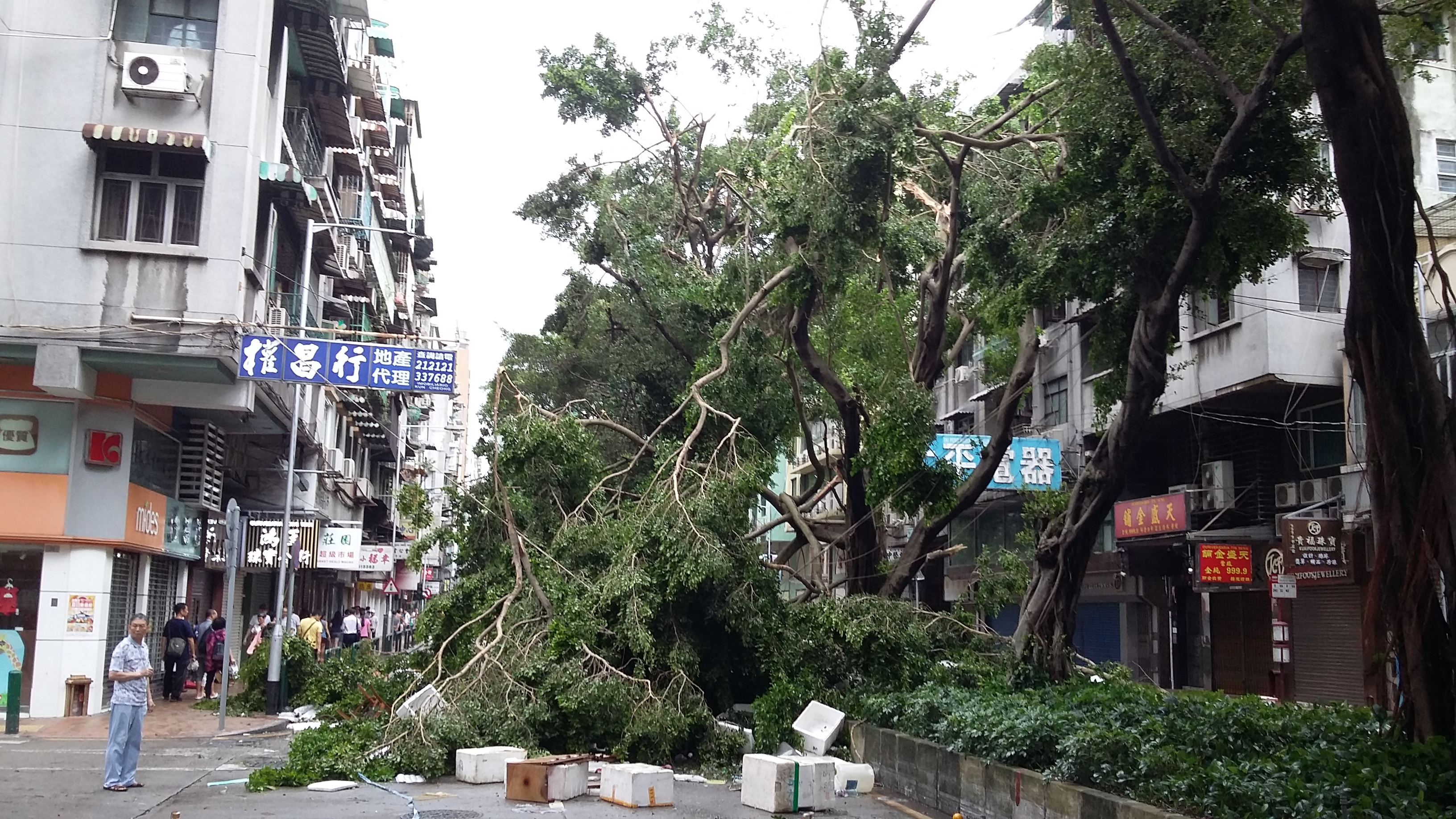 During the storm, at Freguesia de Santo António.